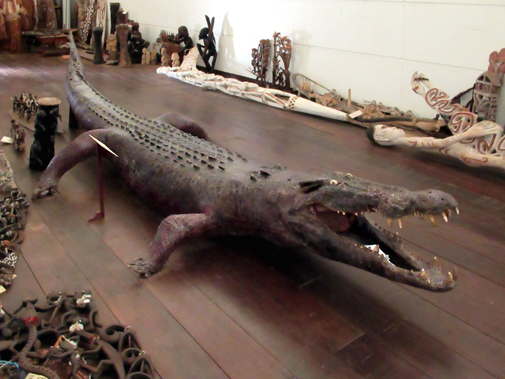 This male crocodile specimen at the Museum Asmat in Agats, Asmat, West Papua (Irian Jaya), Indonesia, was killed in 2004.